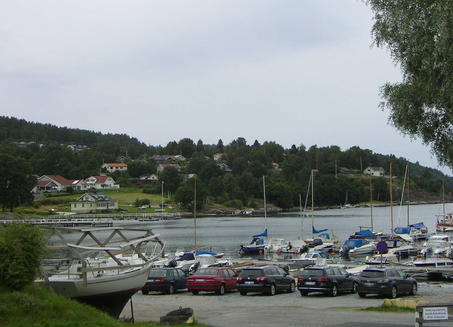 Harbour and a part of the village of Svanesund, Orust Municipality, Sweden